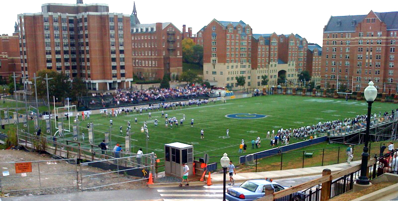 The Georgetown Hoyas American football team play the Holy Cross Crusaders at Multi-Sport Field on the campus of Georgetown University in Washington, D.C.